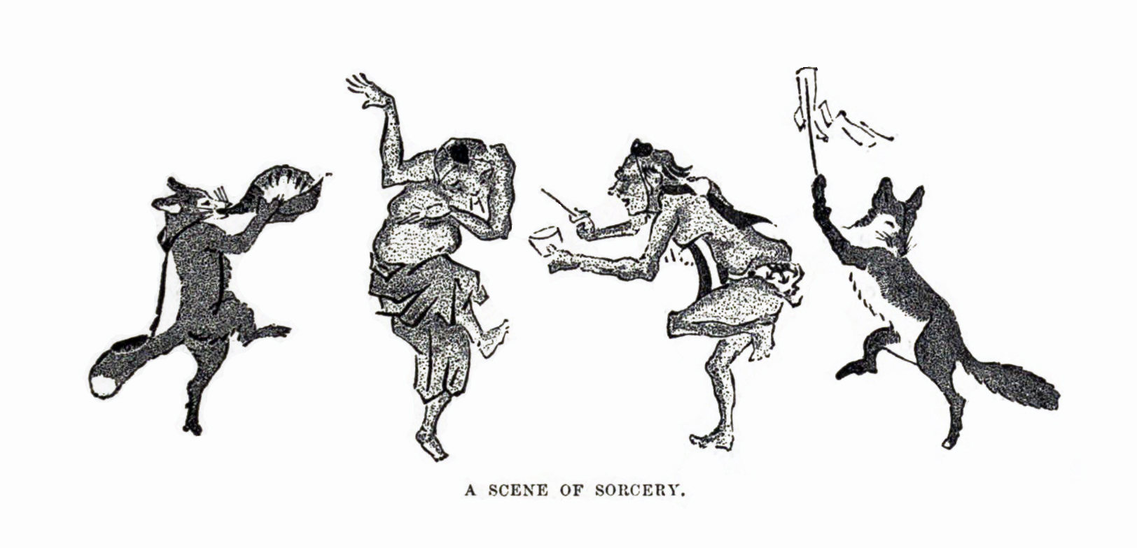 A Scene of Sorcery - an illustration from "Japan and the Japanese Illustrated" page 352